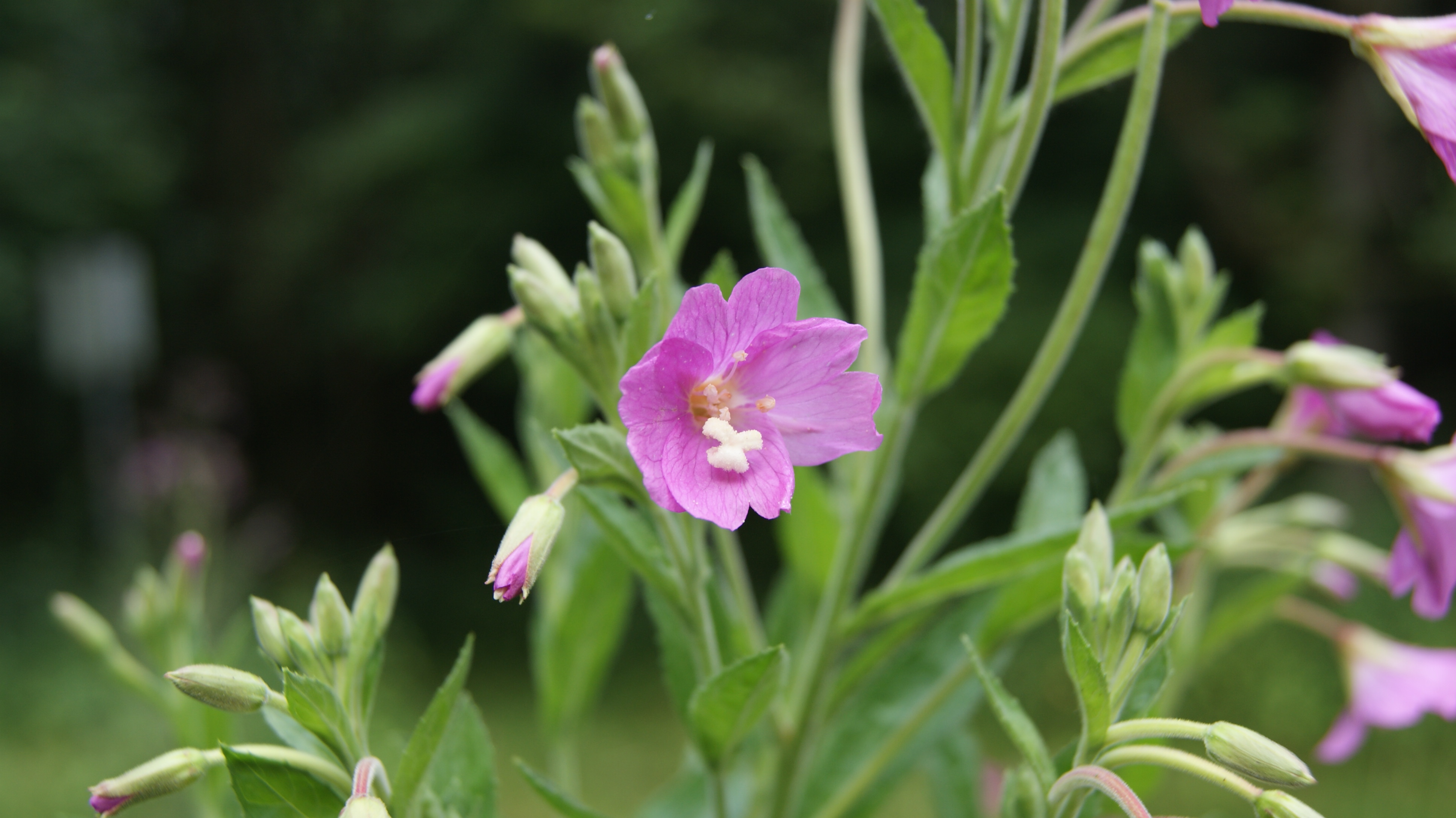 Great willowherb (Epilobium hirsutum)